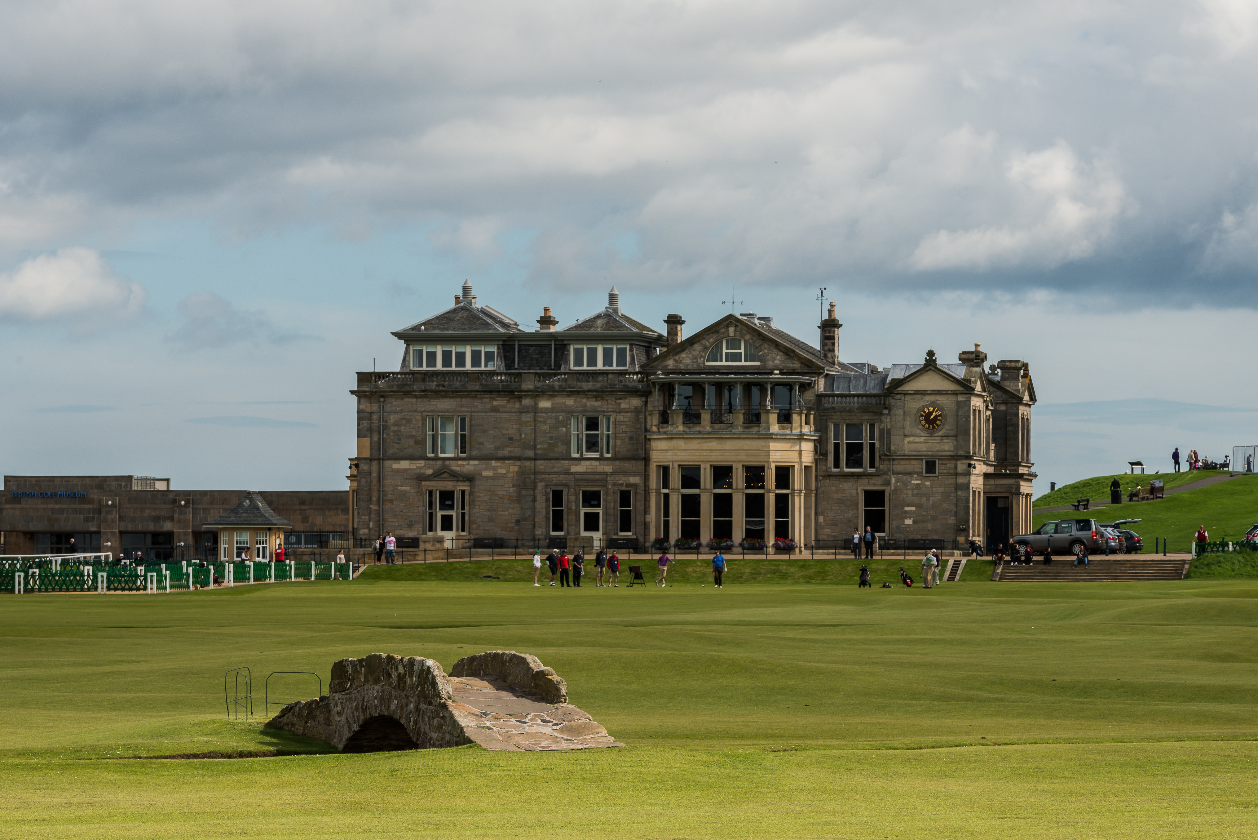 R&A Clubhouse, St. Andrews, with bridge over Swilcan Burn